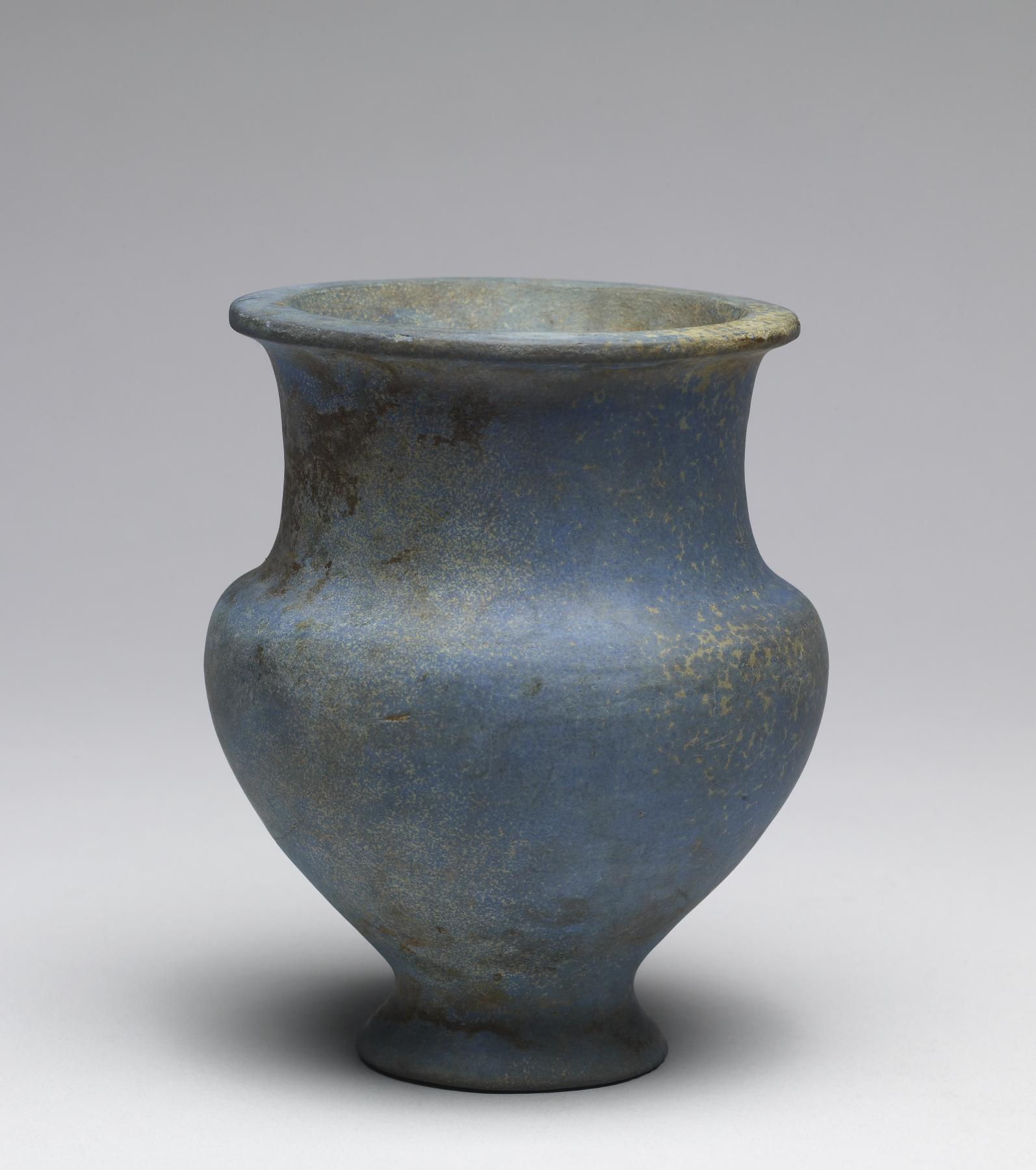 A rare and fine example of so-called "Egyptian blue" ceramic ware, this lovely vase has a form similar to contemporary vessels of alabaster.